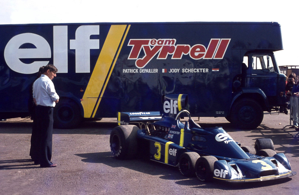 Team owner and Manager Ken Tyrrell, and the Tyrrell P34 test car at the 1976 Silverstone International Trophy